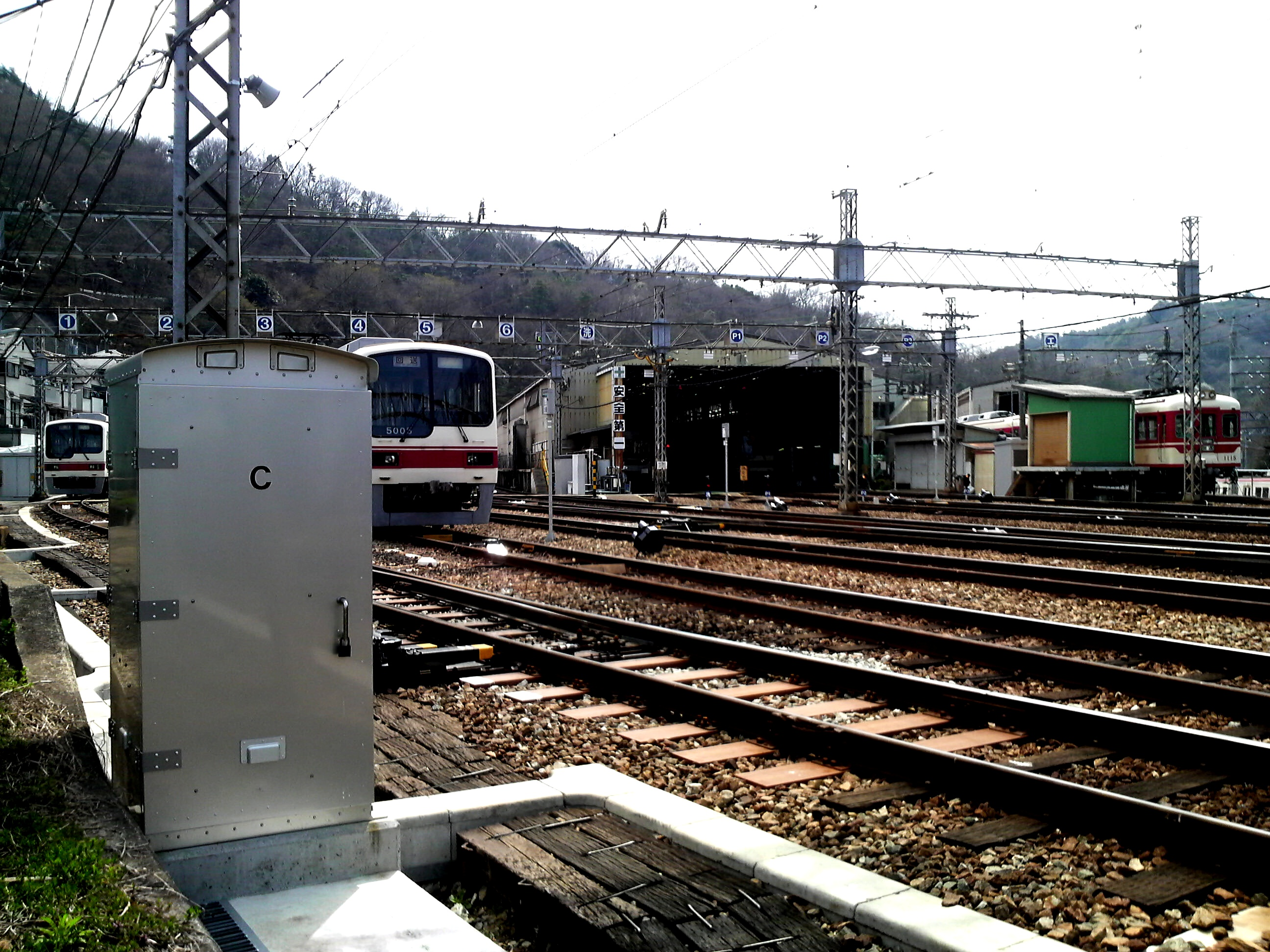 Kobe Electric Railway Suzurandai Depot